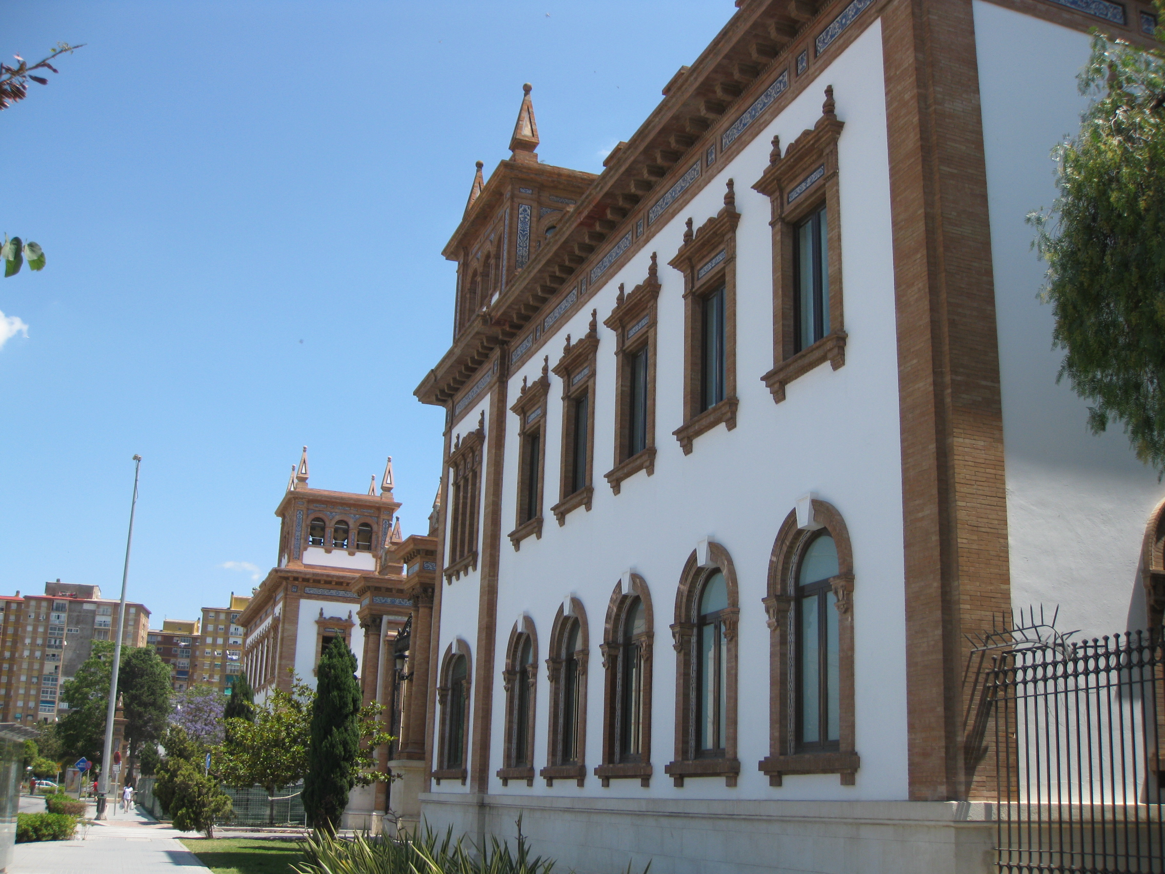 Old tobacco factory, Málaga, Spain